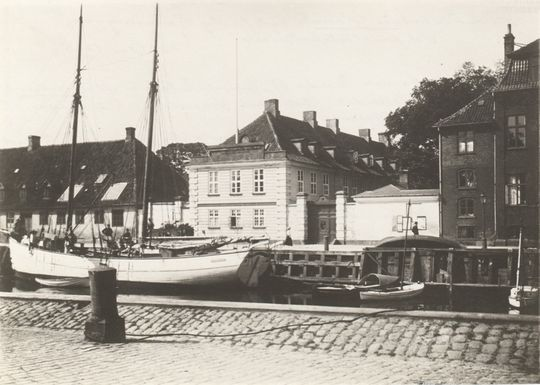 Late 19th century photo of the Royal Horse Guards Barracks at Frederiksholms Kanal in Copenhagen, Denmark